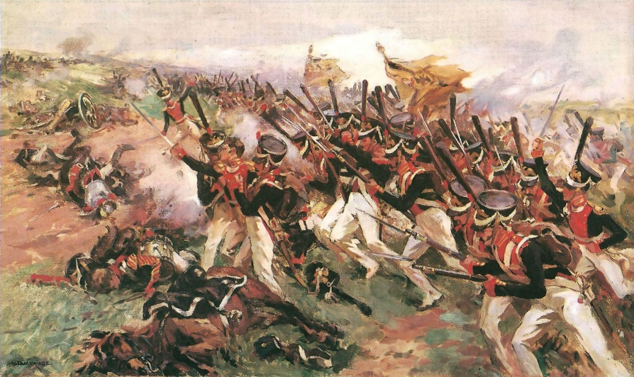 Nikolay Samokish (1860-1944). Аssault of lithuanians (1912)